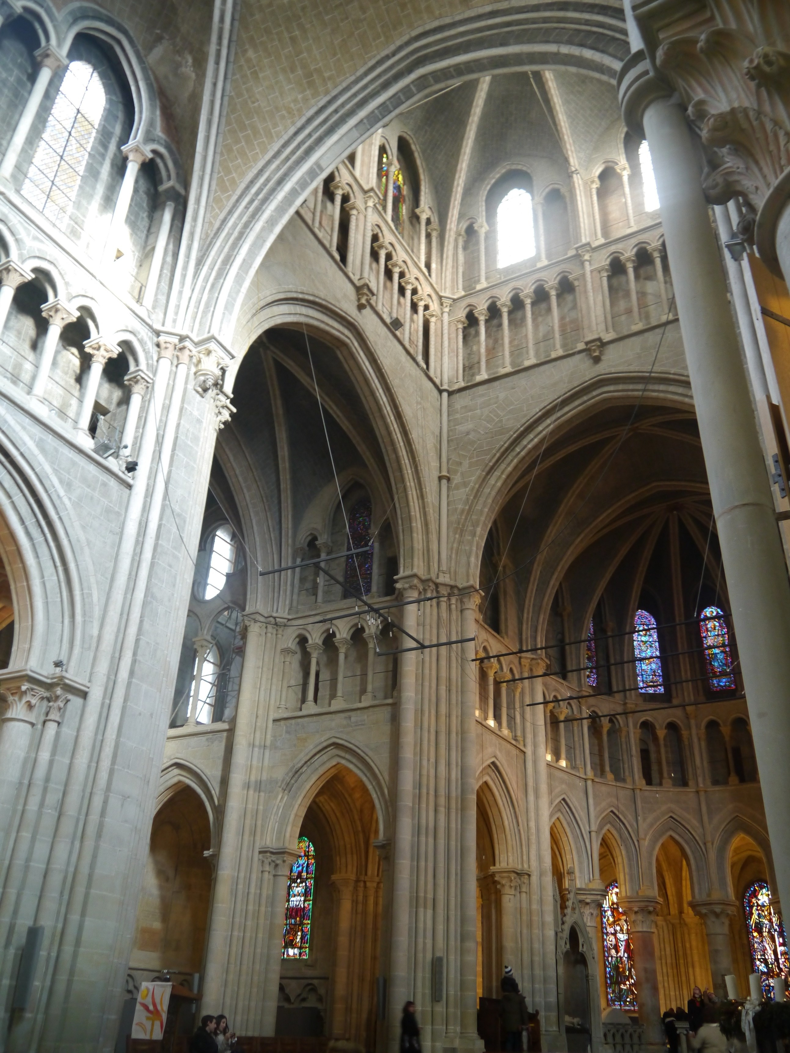 Nave of the Cathedral of Our Lady of Glarier, Lausanne, Canton of Vaud, Southwestern Switzerland